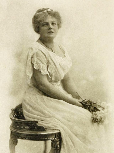 Photograph of Mary Gaunt, Australian novelist, included in her book "Alone in West Africa," published in 1912. To be used at